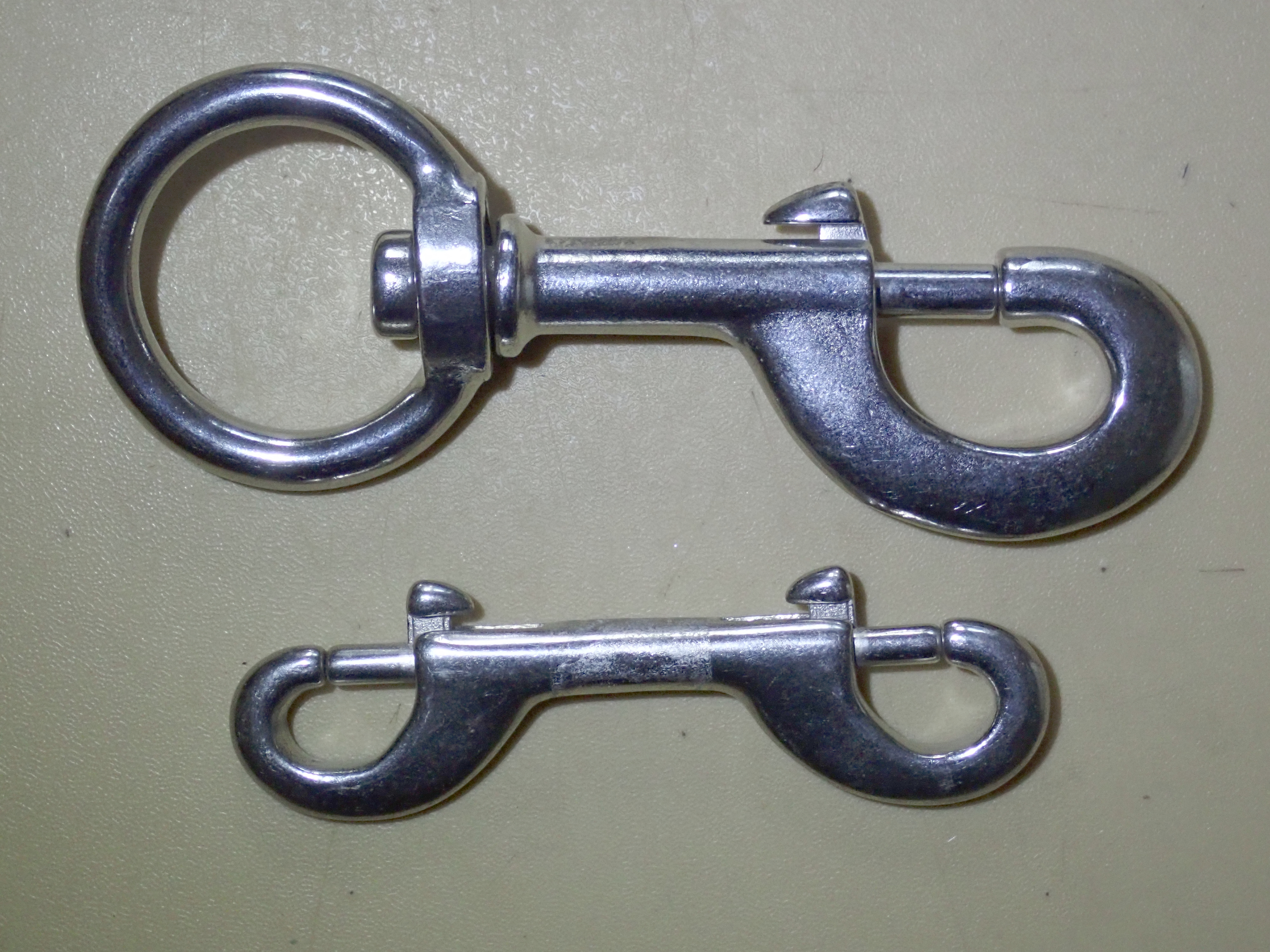 Large swivel ring single end bolt snap and short double end bolt snap